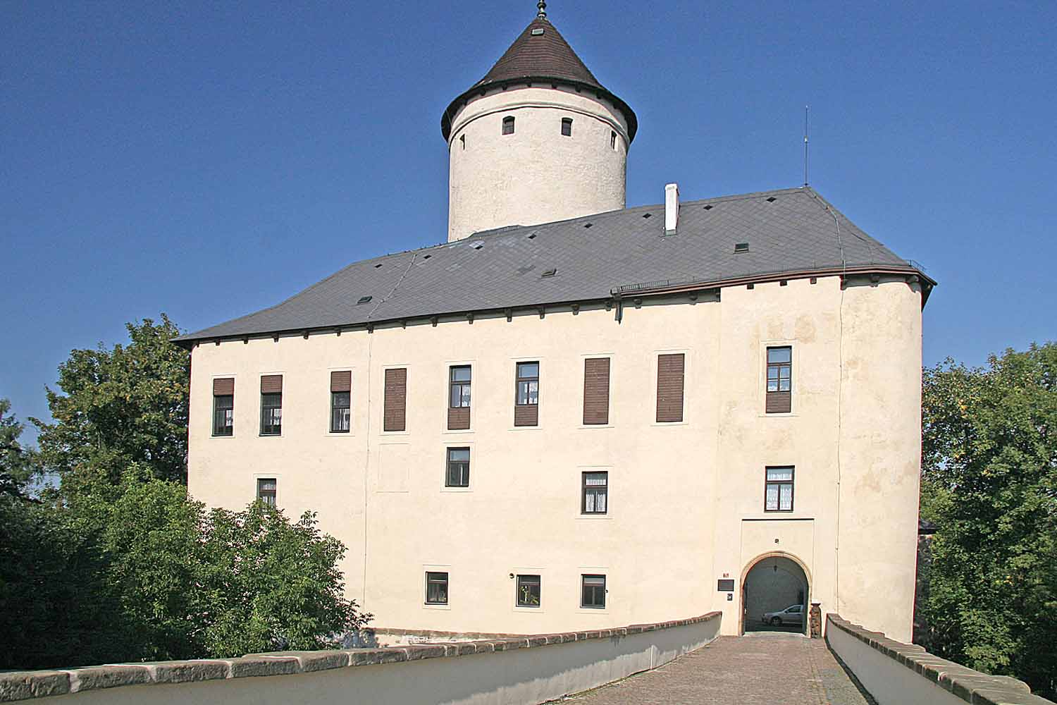 Rychmburk Castle in Předhradí, Chrudim District, Czech Republic